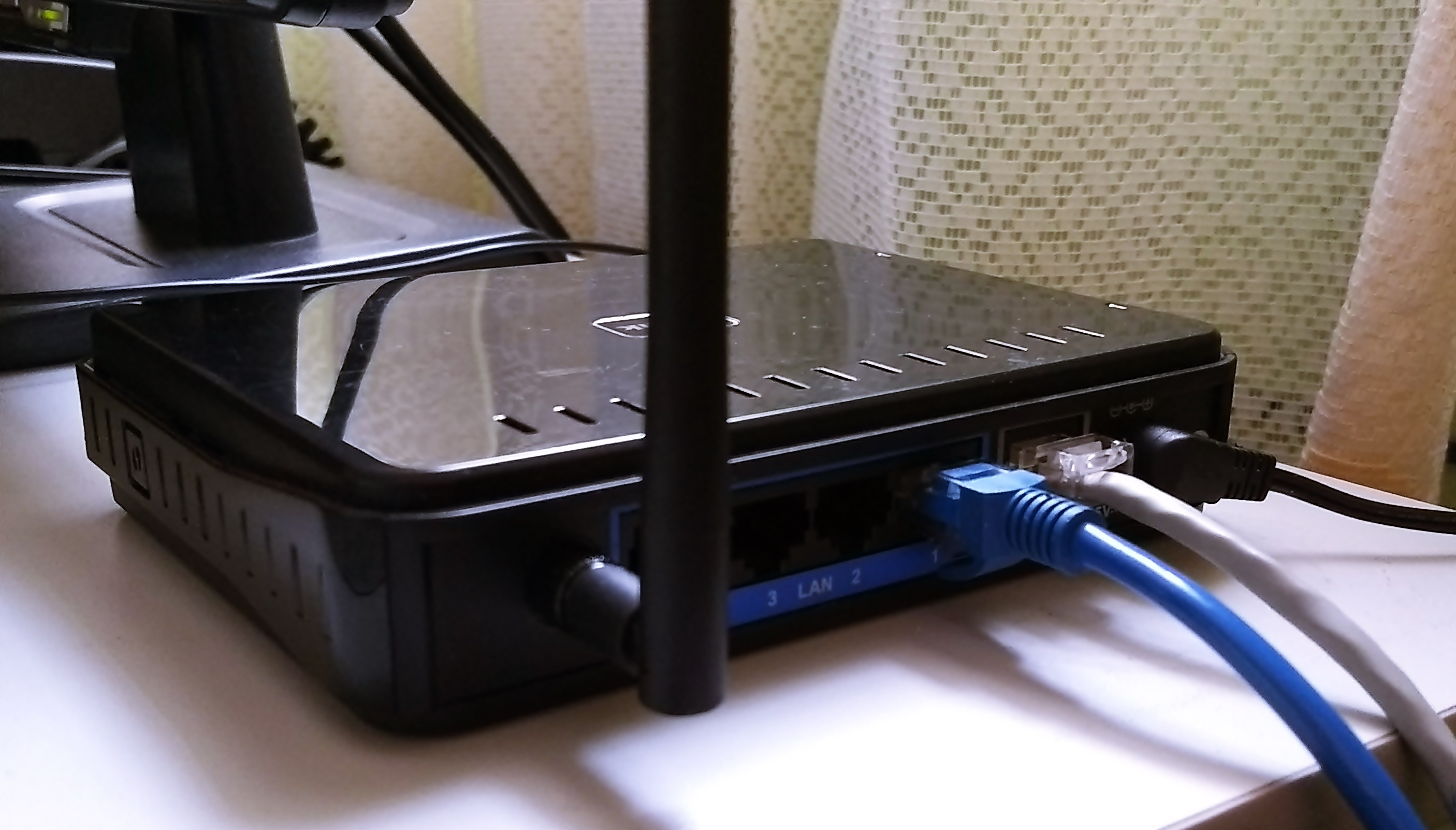 D-Link DIR-600 Installed in my network house, using the Movistar's Network and WiFi off, installed the LAN cables in my PC